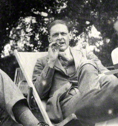 T. S. Eliot, photographed in 1923 by Lady Ottoline Morrell (1873–1938)